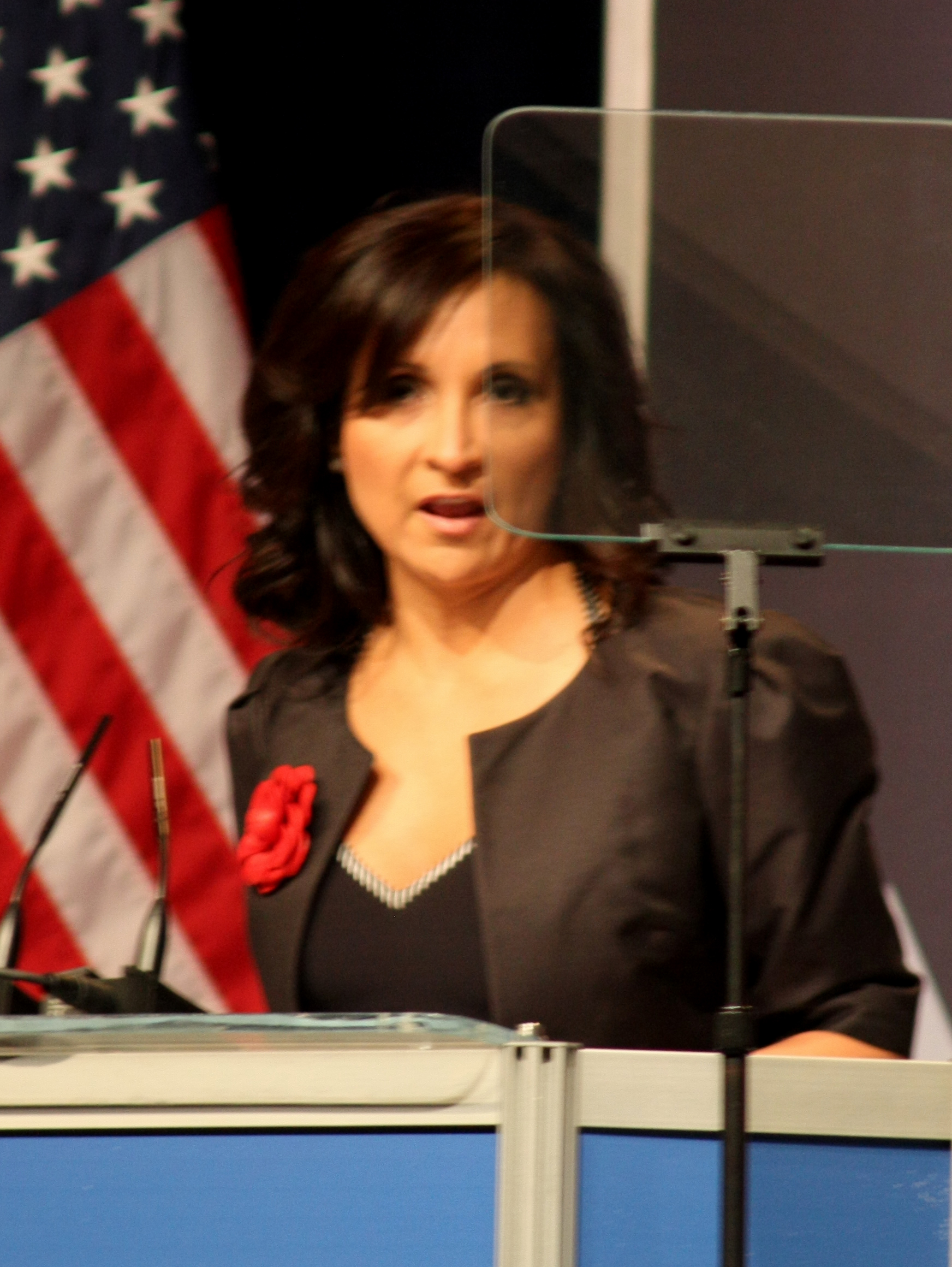 Television commentator Leslie Sanchez at CPAC in Washington, D.C..